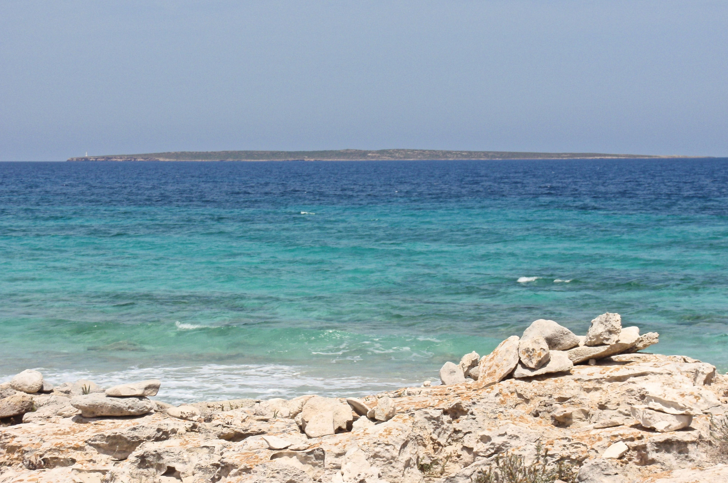 View of the island of S'Espardell from Formentera, Balearic Islands